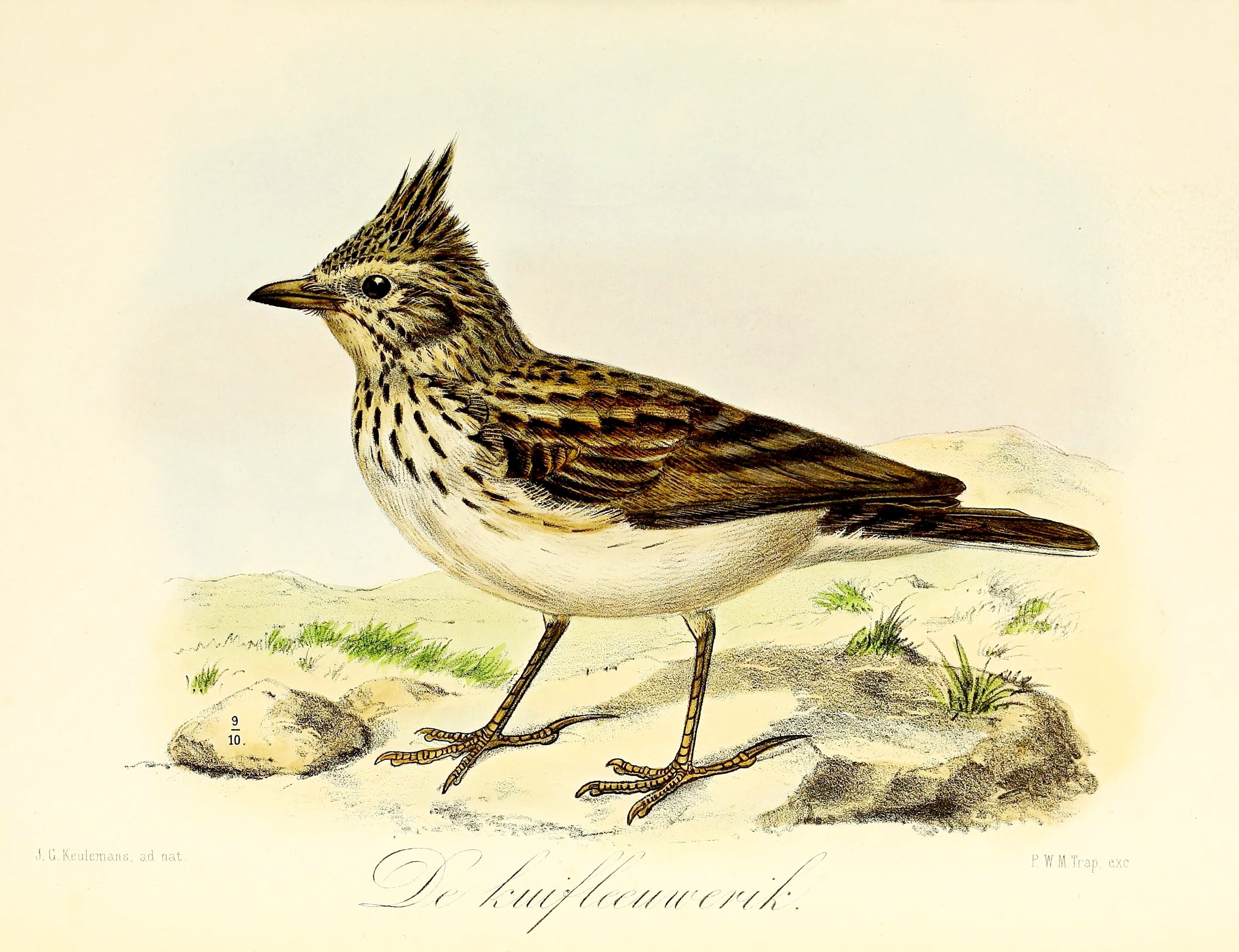 « Alauda cristata » = Galerida cristata (Crested lark)